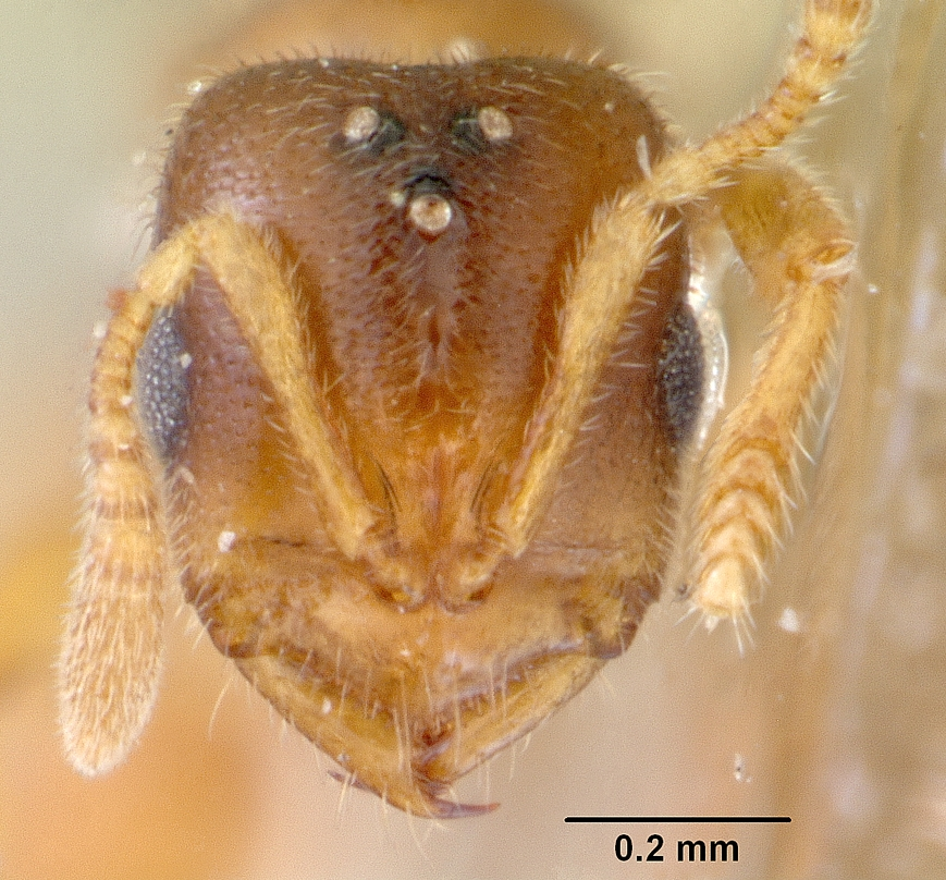 Head view of ant Prionopelta punctulata specimen casent0172312.